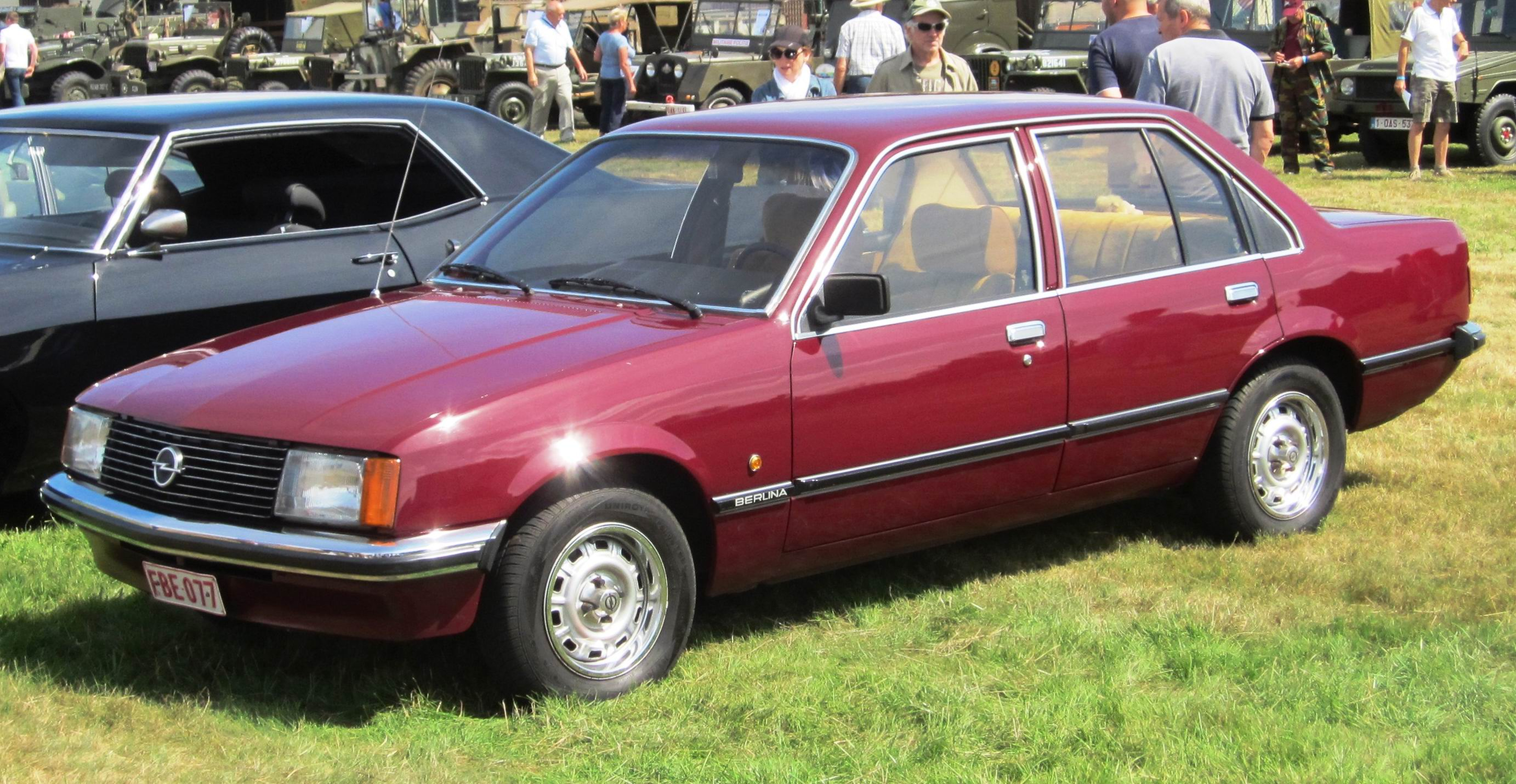 Opel Rekord E1 Berlina